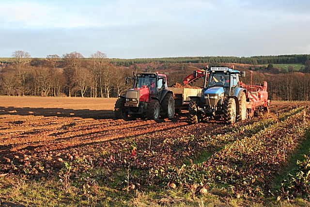 Harvesting. This machinery was being used to harvest a field of beetroot on the Haugh of Orton. There were one machine (not in shot) stripping the tops off the beets, a second one (drawn by the blue tractor) lifting them, and two tractors with bogeys taking the beets to storage.